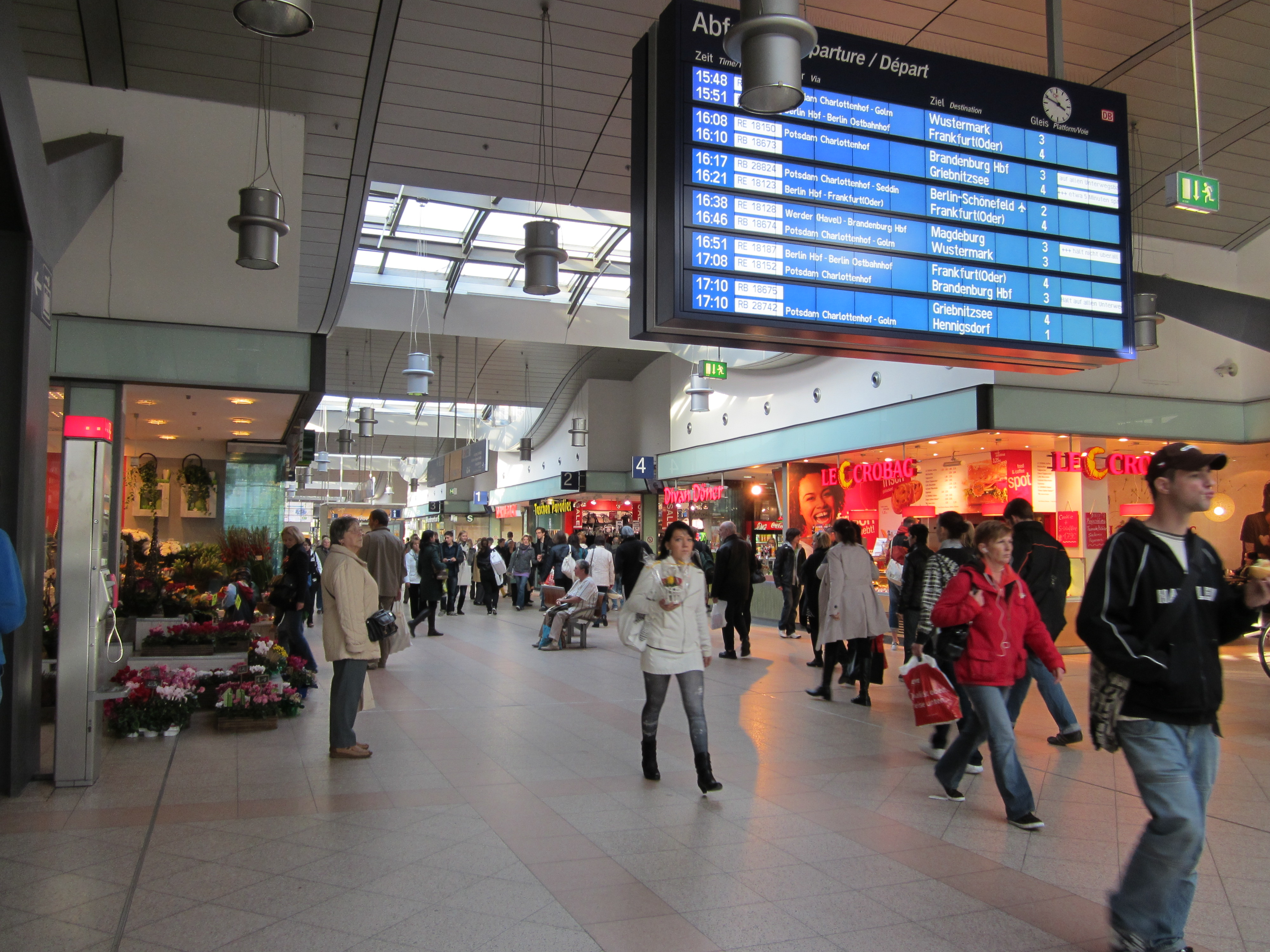 The main concourse of Potsdam Hauptbahnhof in October 2011